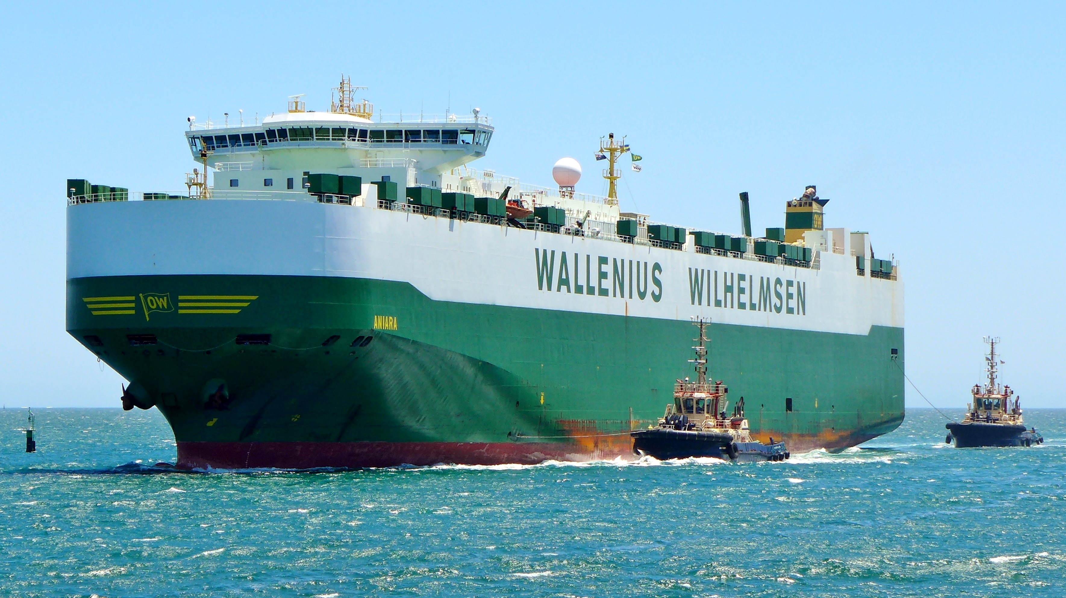 Wallenius Wilhelmsen Logistics car carrier MV Aniara entering the inner harbour of the Port of Fremantle, Western Australia, with a liner service from Europe - previous stop: Durban, South Africa; next stop: Melbourne, Australia.